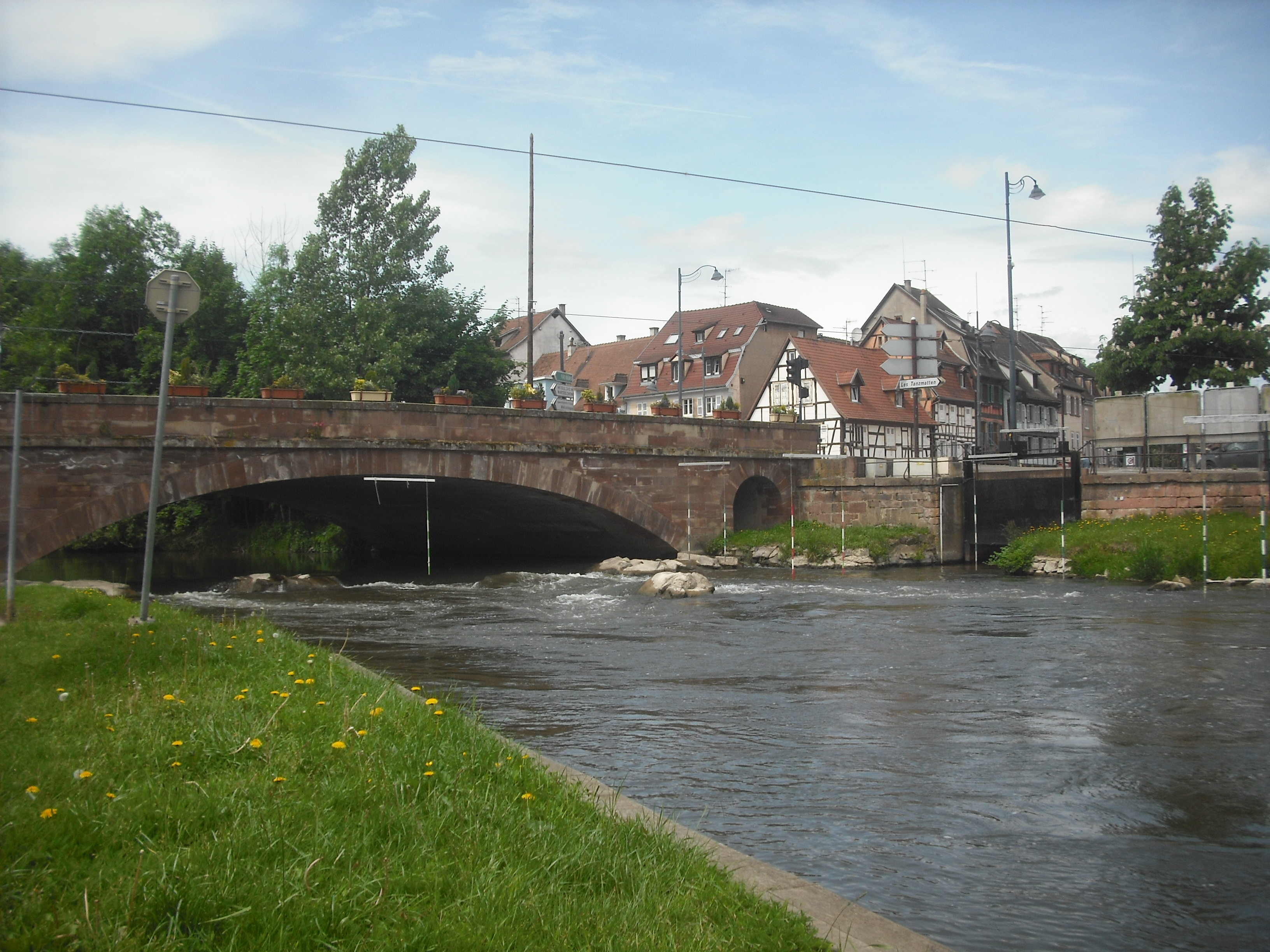 L'Ill dans le centre de Sélestat.